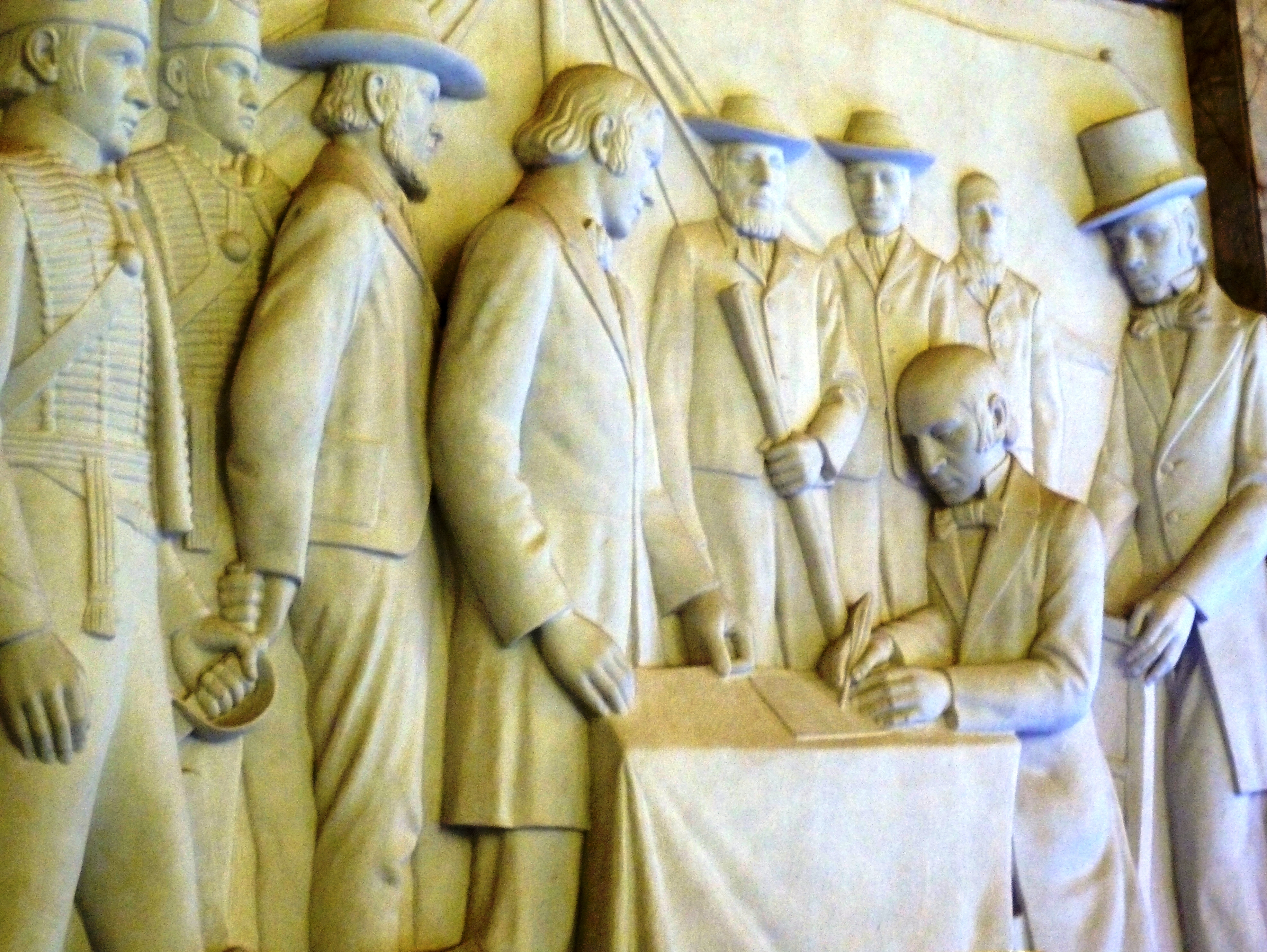 Singing of the Sand River Convention in 1852, on B. Venter's farm Boskop, at the Sand River in the Orange Free State. It guaranteed a temporary independence of the Voortrekkers' acquisitions north of the Vaal River.